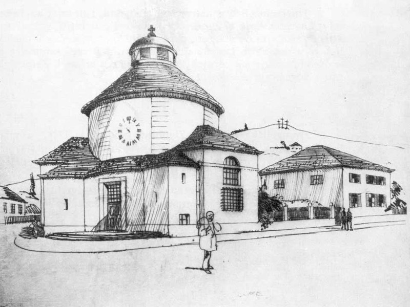 The Evangelical Church in Zemun, Belgrade, Serbia, as drawn by architect Hugo Ehrlich